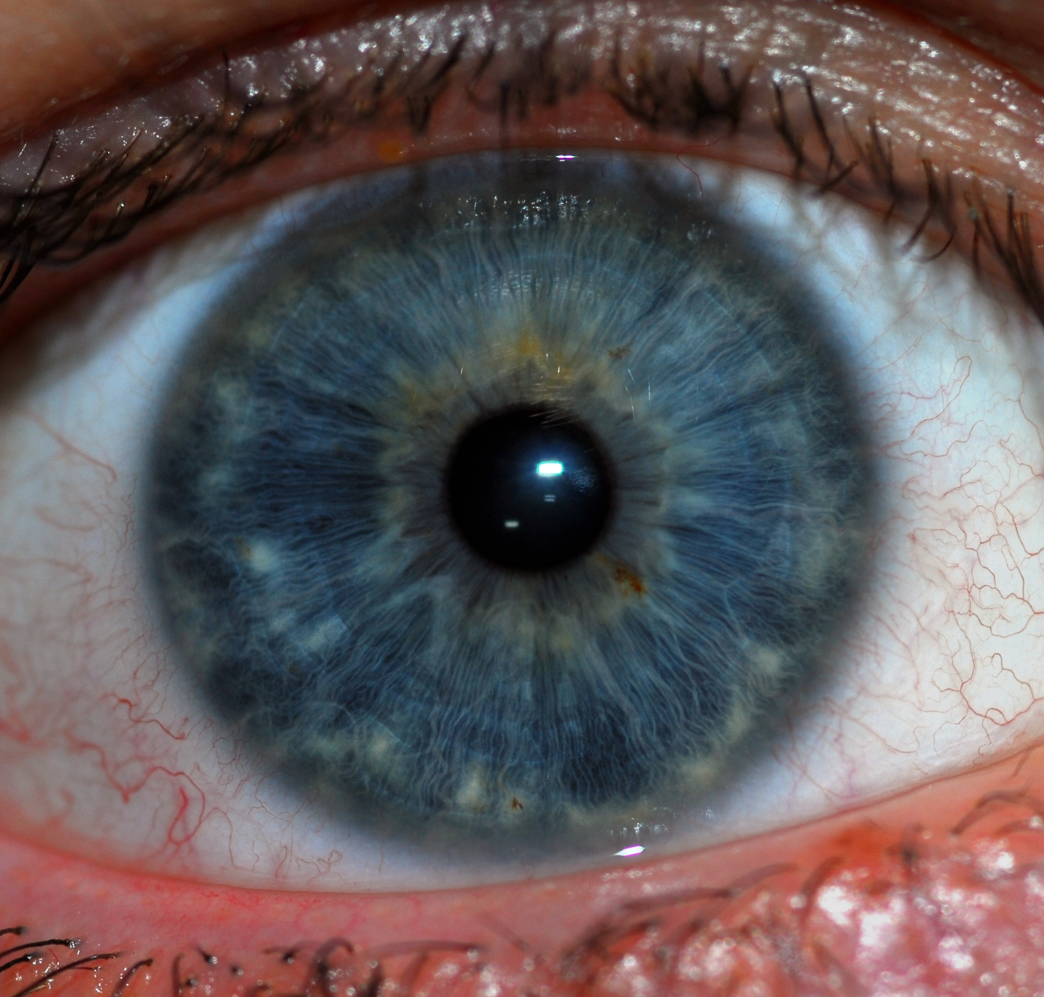 Human Iris, Blue Type